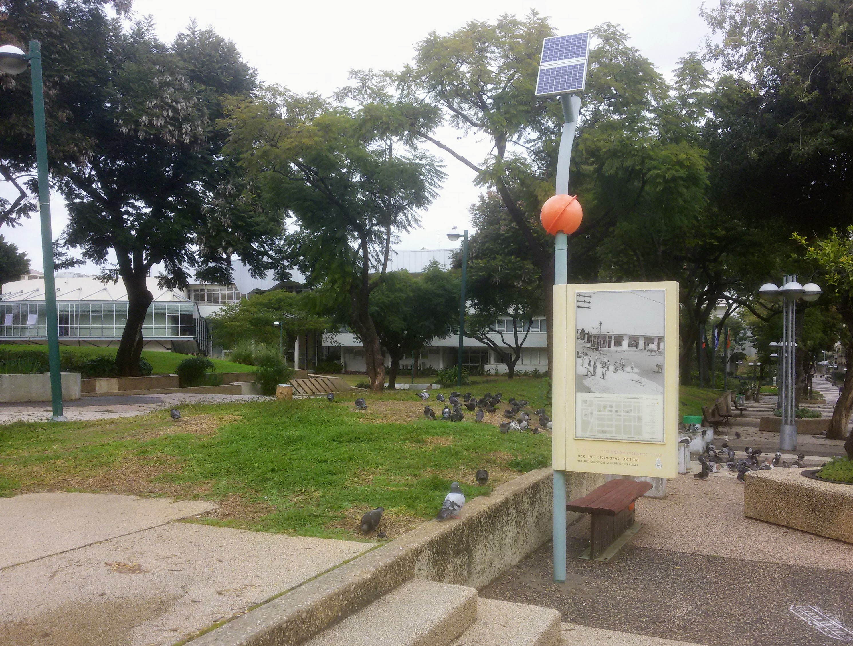 The Founders' Trail, Kfar Saba: site #2 - Beit Sapir